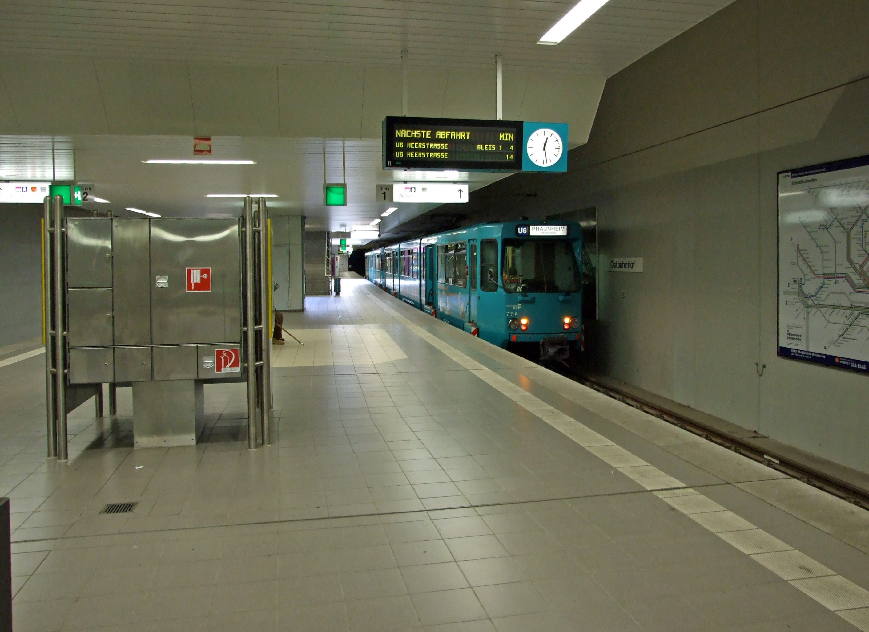 C floor of underground station Ostbahnhof in Frankfurt am Main Ostend